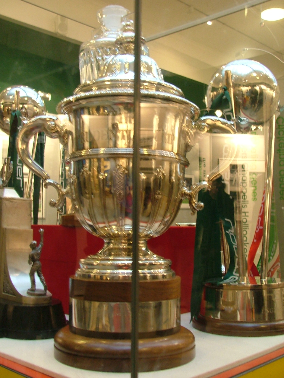 Prudential Cup at Lords, England. Cricket World Cup trophy which, or similar ones, were used in the Prudential World Cups, 1975-1983.